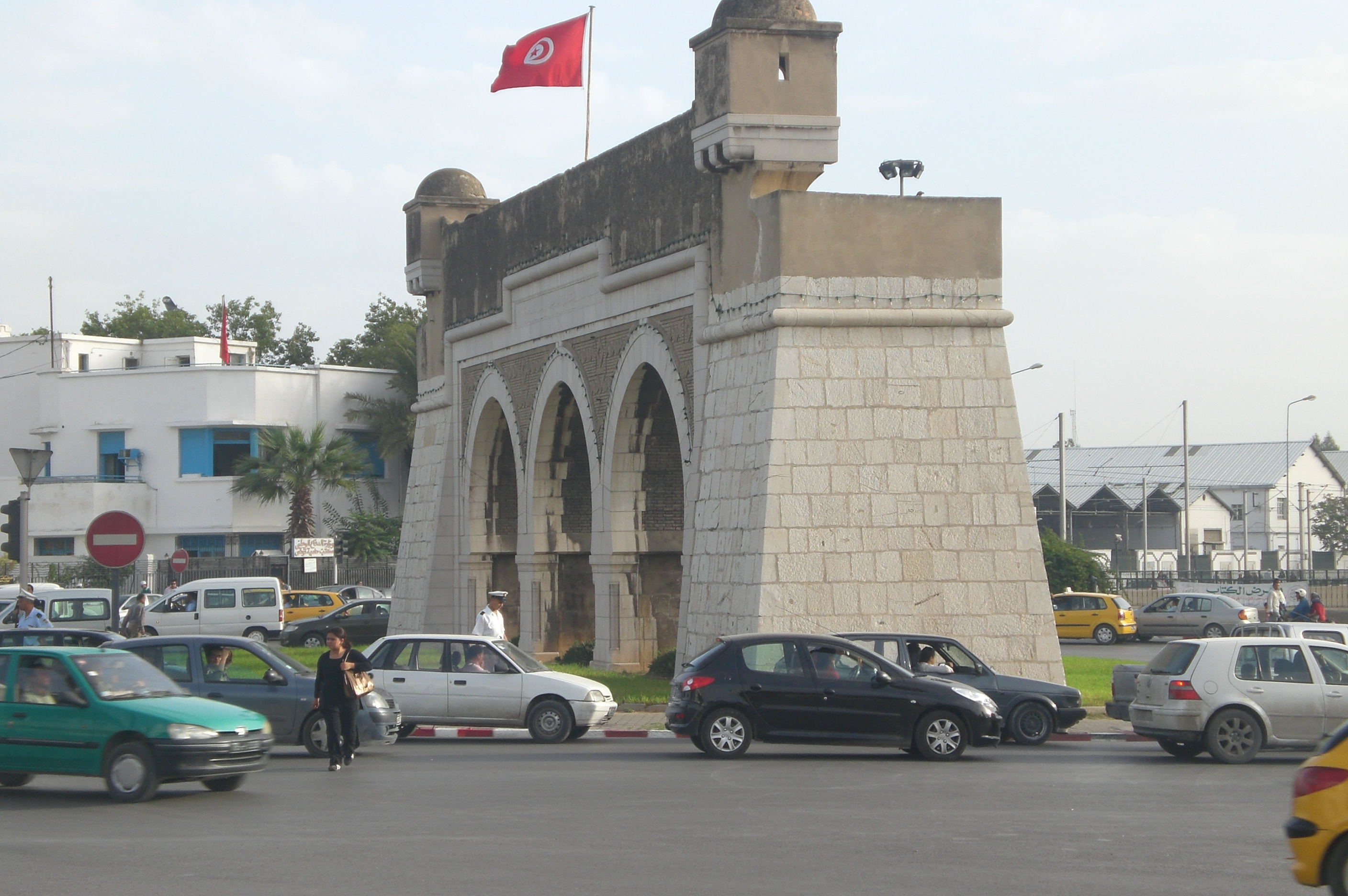 Bab Saadoun in Tunis